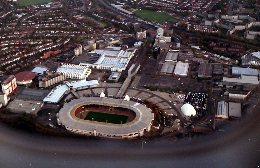 Wembley Stadium, London, England